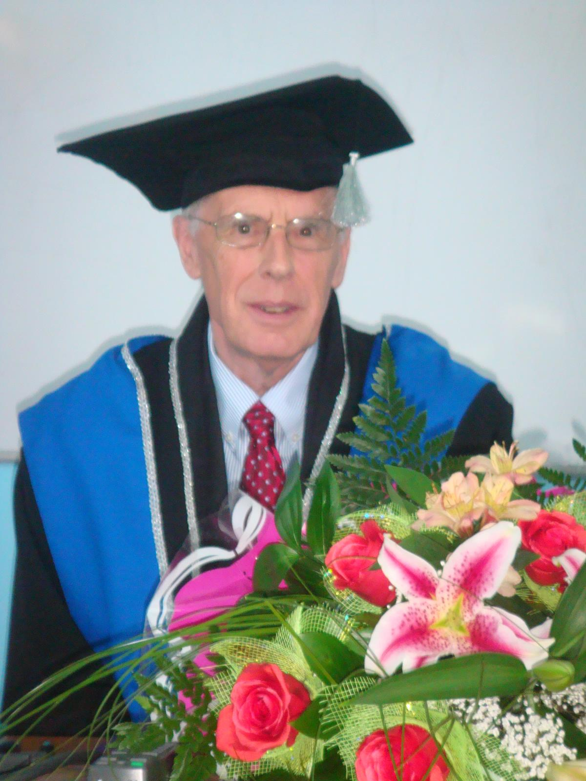 Photo Of John Hopcroft, in SPbSU ITMO